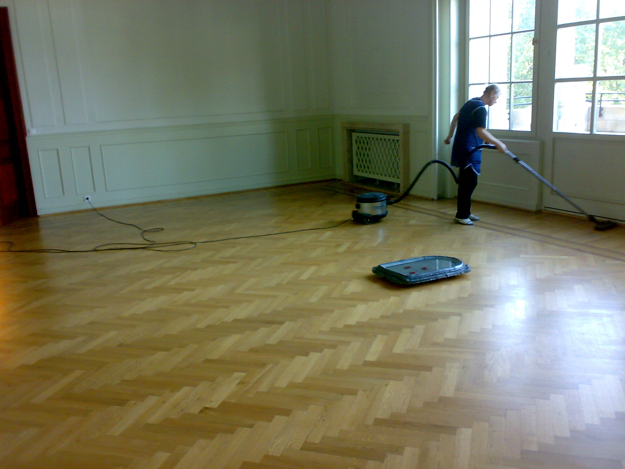 Imperial Castle in Poznan - Mediations Biennale 2010.